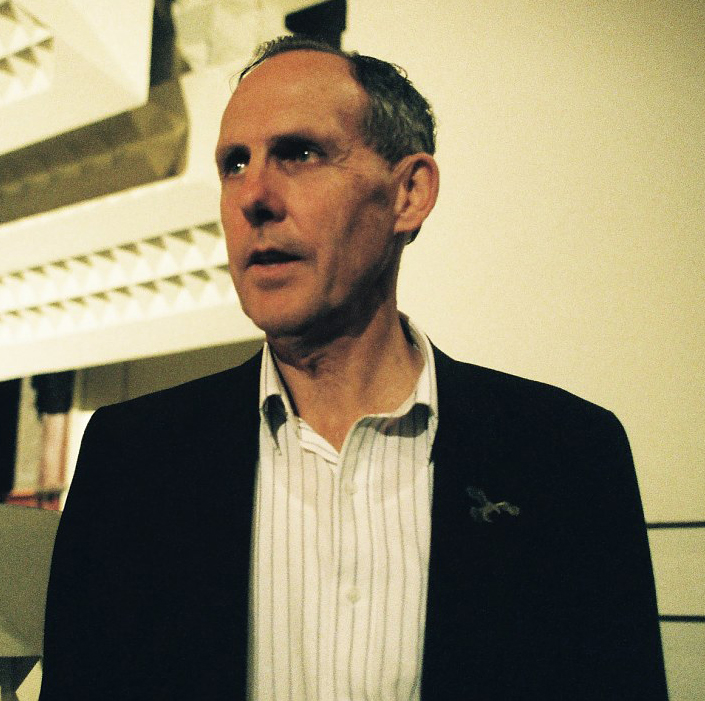 Australian Senator Bob Brown, parliamentary leader of the Australian Greens.